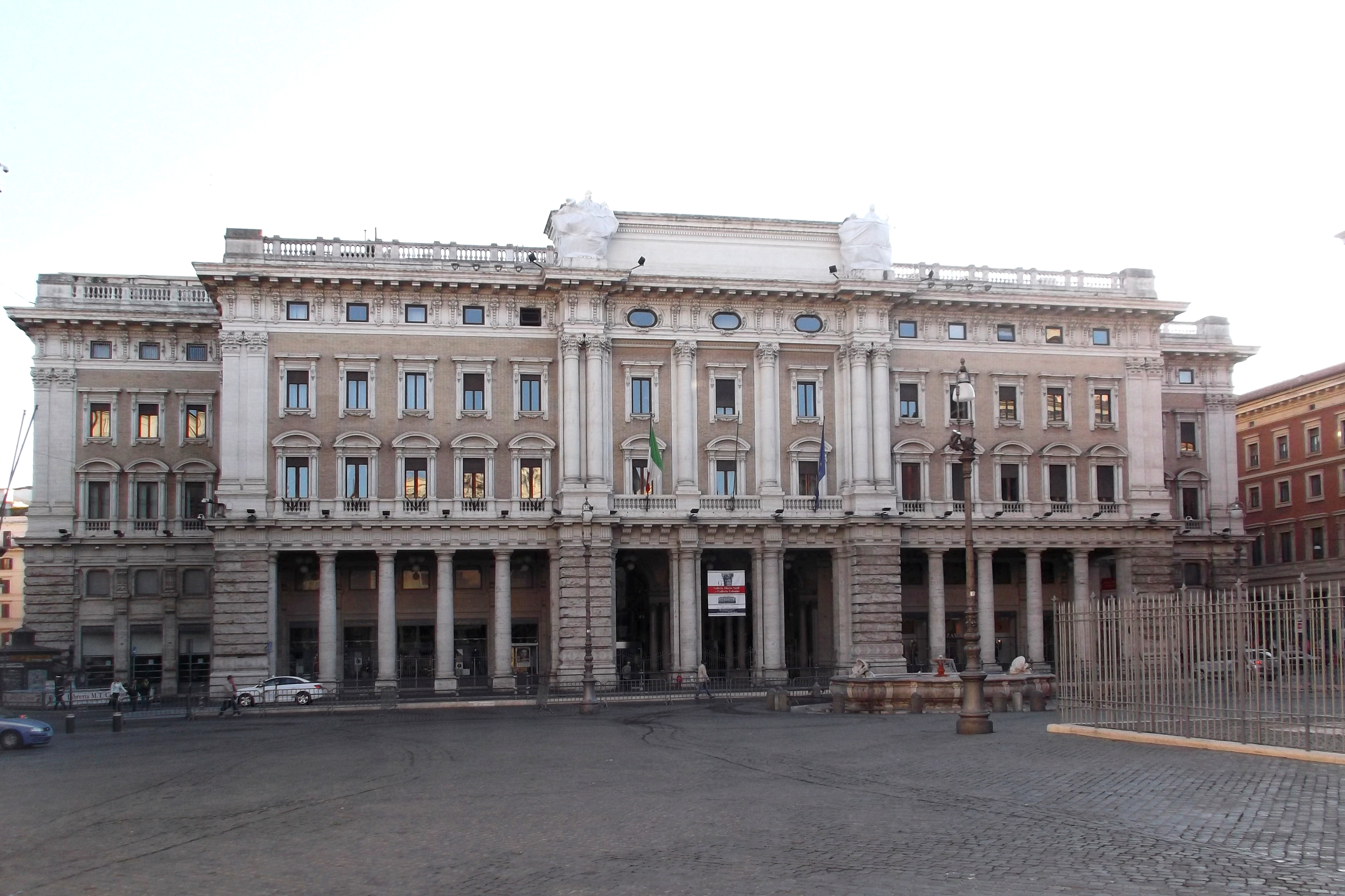 Galleria Alberto Sordi (formerly known as Galleria Colonna) in Rome, Italy